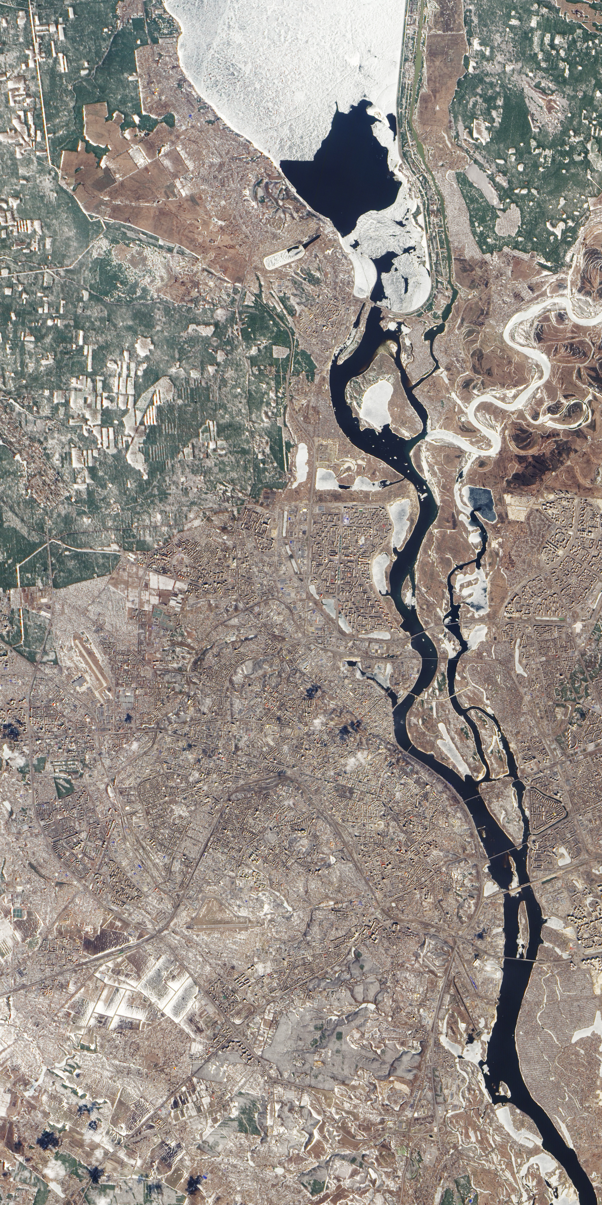 The Kyiv (or Kiev) Reservoir lies along the Dnieper River, some 16 kilometres north of the Ukrainian capital. The reservoir’s surface is a combination of ice-covered and ice-free areas, the largest open-water area occurring just a few kilometres north of the reservoir’s southern tip. Around the reservoir lies a combination of grassy, forested, agricultural, and urbanized lands. Roads and corridors of greenery line the eastern side of the reservoir, and residential areas hug the shore on the western side. The natural landscape in this region is generally marshy and well watered. Although snow has mostly melted, much of the vegetation remains brown in this early springtime image.